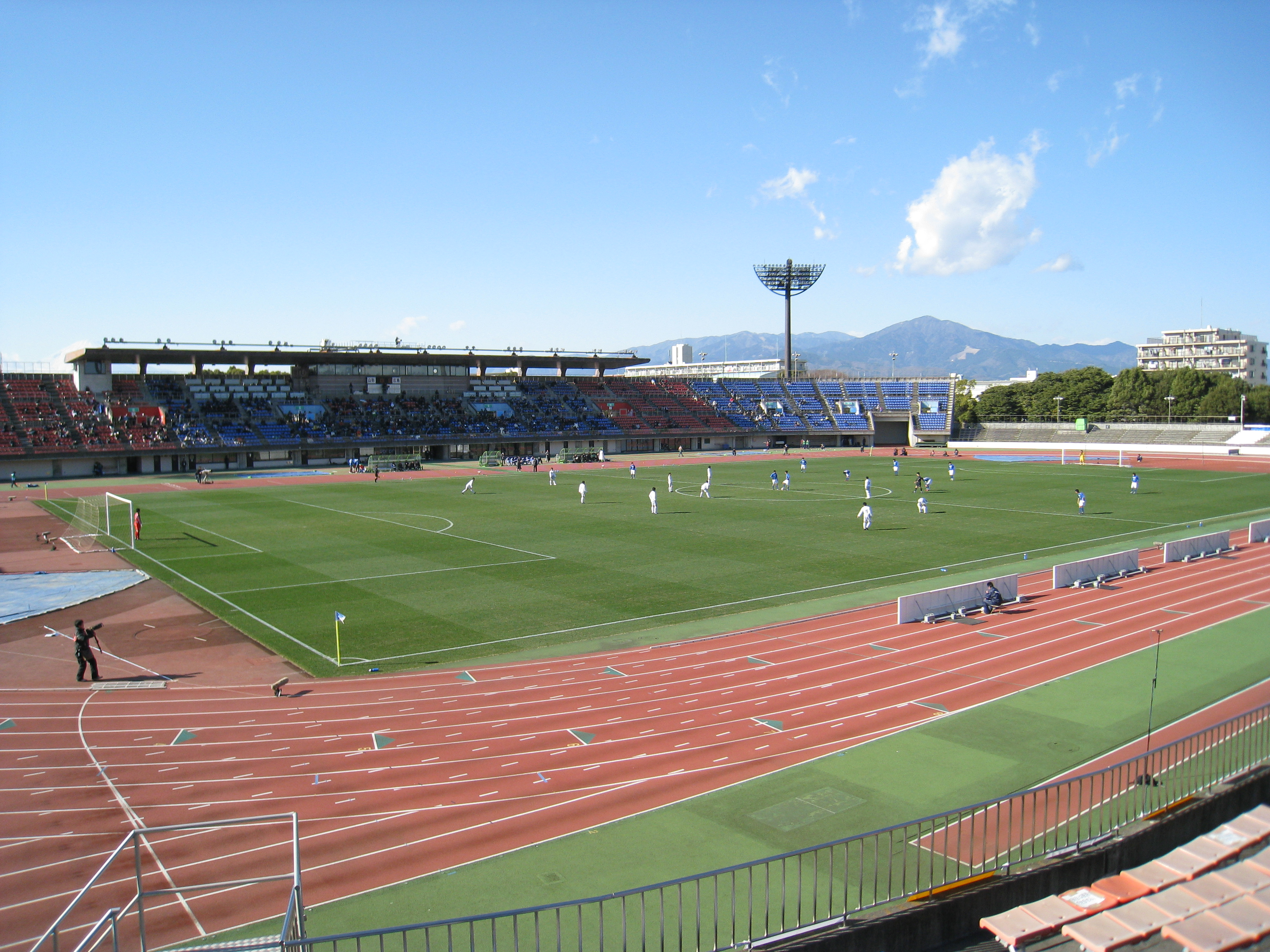 Hiratsuka Stadium. Hiratsuka-city,Kanagawa-Pref,Japan